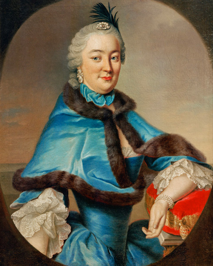 Countess Palatine Caroline of Zweibrücken (1721-1774), landgravine of Hesse-Darmstad